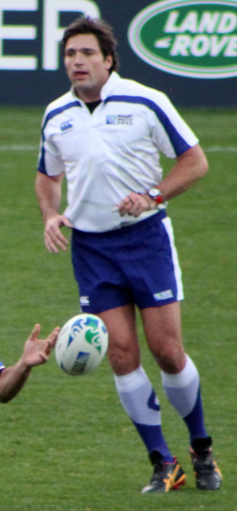 The New Zealand-born Australian rugby union referee Steve Walsh refereeing the match between France and Tonga during 2011 Rugby World Cup in New Zealand.